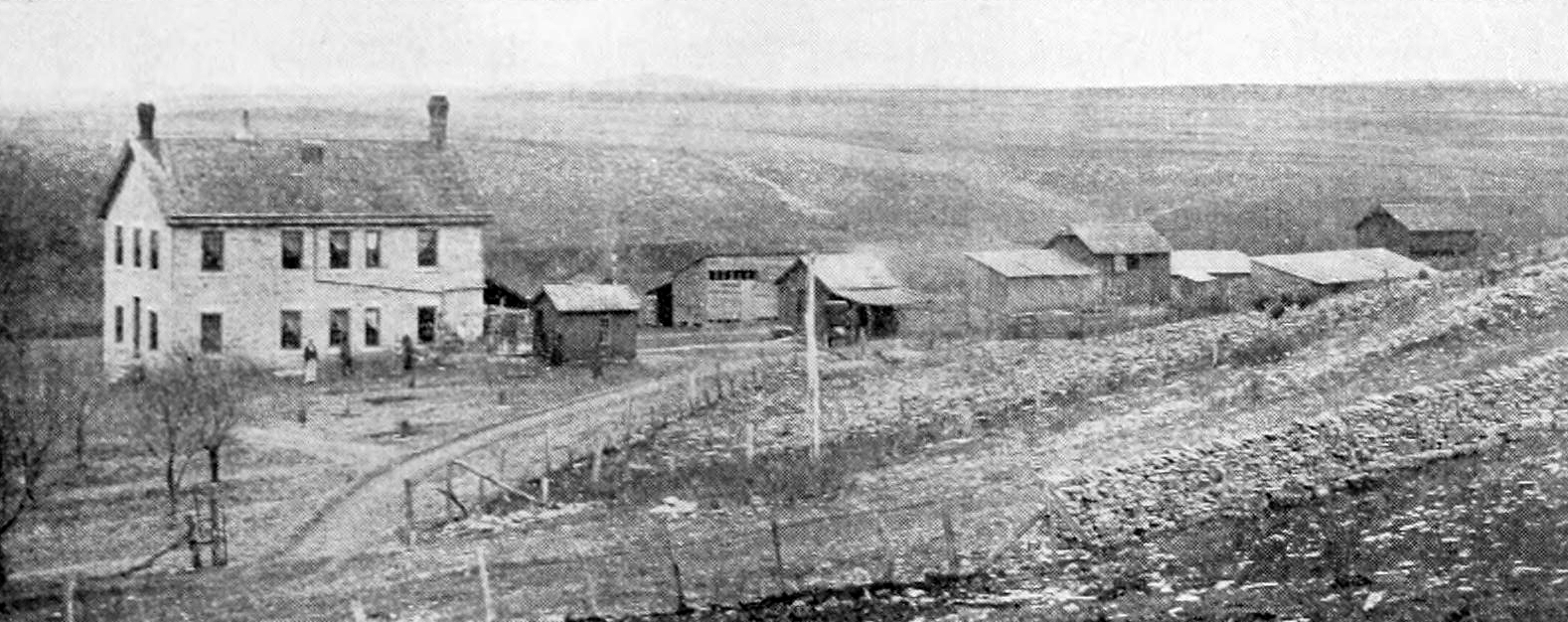 Poor Farm in Wabaunsee County, Kansas, located four miles south of Alma, Kansas. Identifier: earlyhistoryofwa00thom Title: Early history of Wabaunsee County, Kansas, with stories of pioneer days and glimpses of our western border.. Year: 1901 (1900s) Authors: Thomson, Matt Subjects: Wabaunsee County (Kan.) -- History Publisher: Alma, Kansas Text Appearing Before Image: RESIDENCE AND FARM BUILDINGS OF MR. J. M. BI3BEY, Pavilion. Text Appearing After Image: COUNTY POOR FARM, four miles south of Alma.